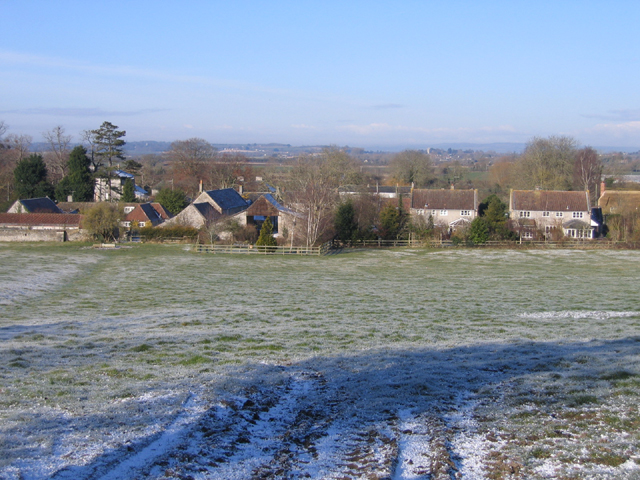 Long Sutton, Somerset. View W from the B3165; houses on Shute Lane.